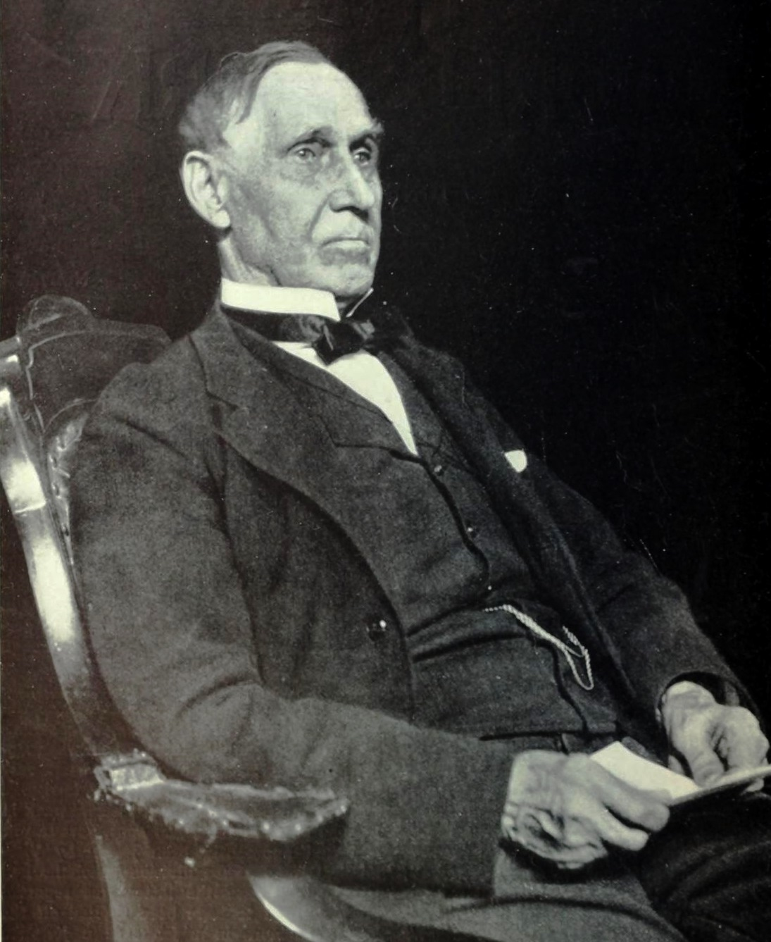 Portrait of Russell Sage